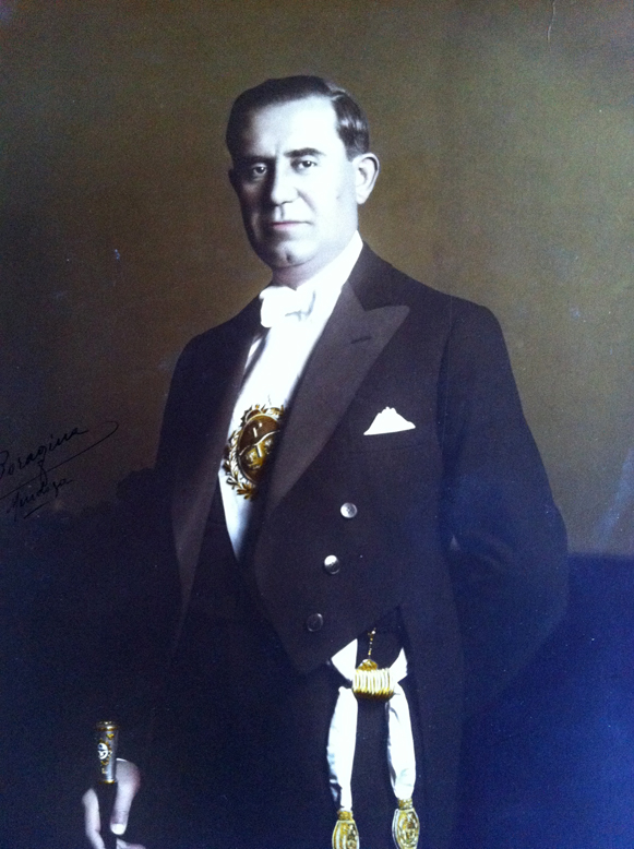 Guillermo G. Cano